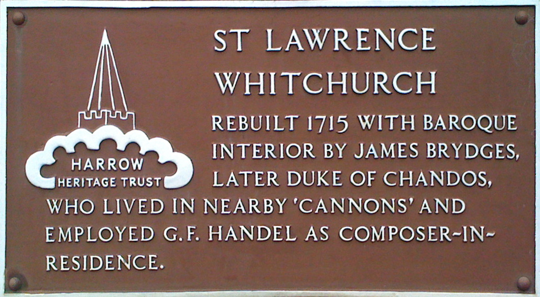 Plaque on the outside of St Lawrence's parish church, Whitchurch, Little Stanmore, Middlesex